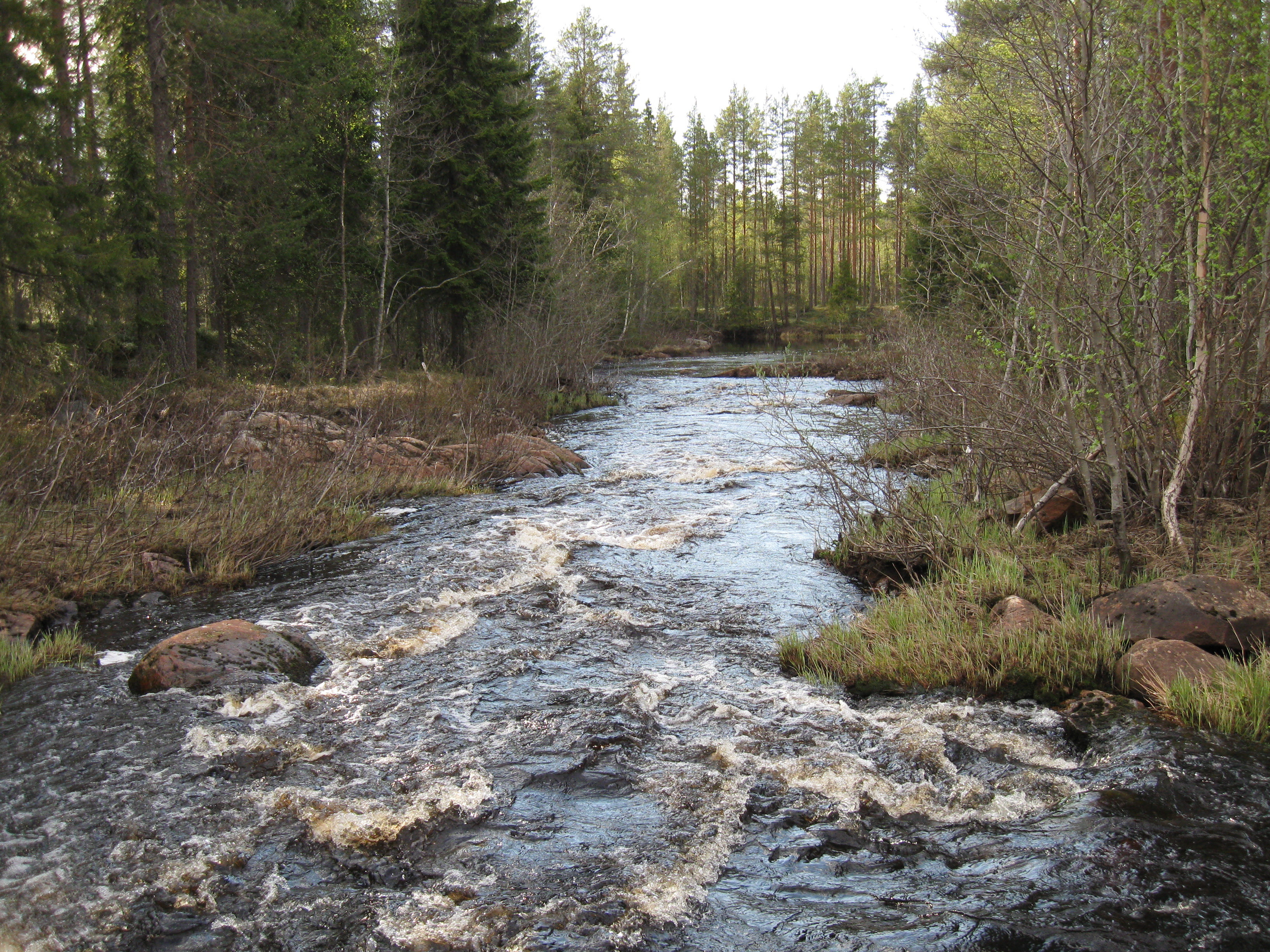 The Lavittakoski rapids in Piltuanjoki, Pudasjärvi, Finland.